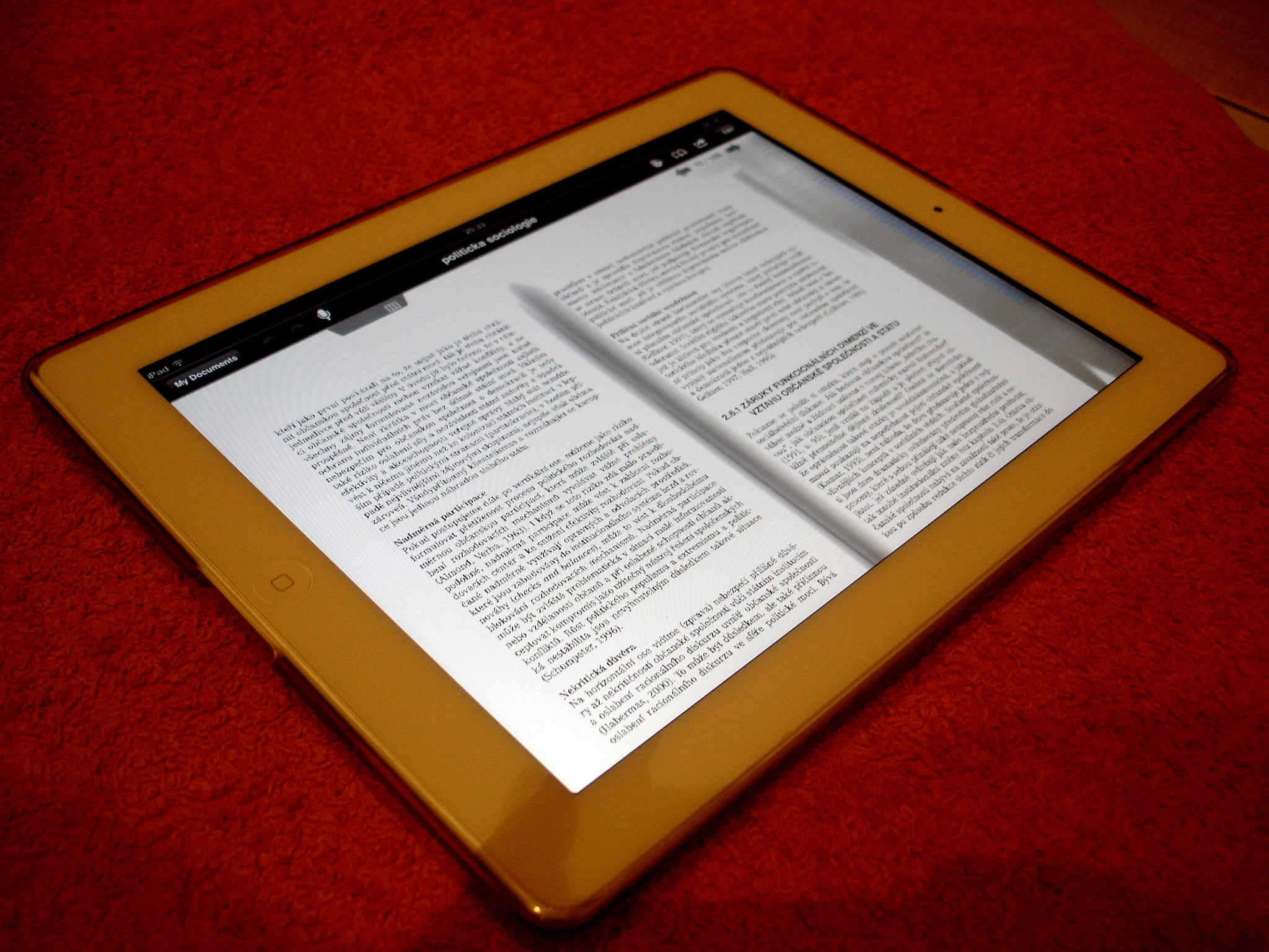 Photo iPad2